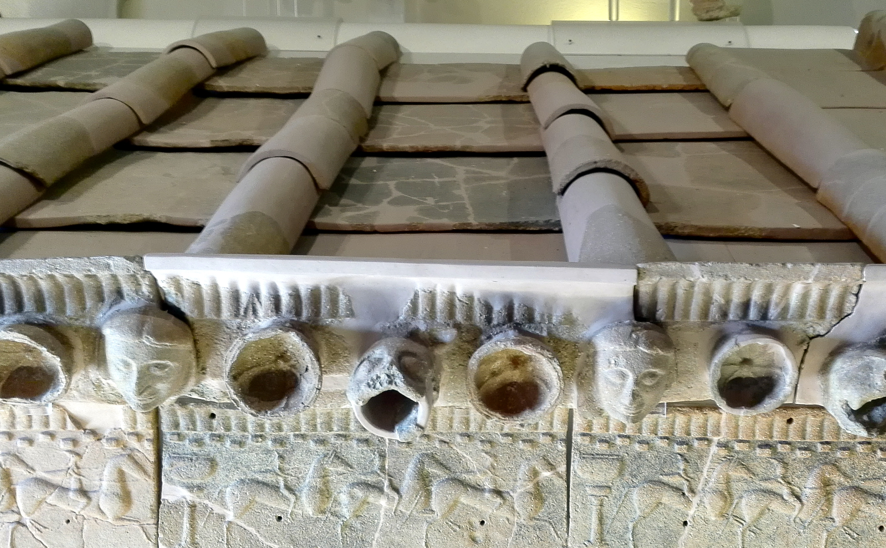 Roof structure with spouter (foreground)